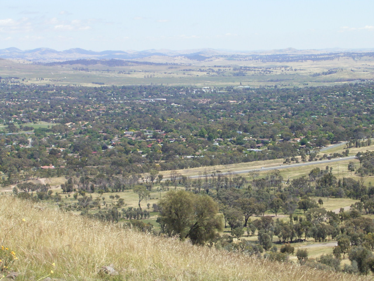 Author: User: Gimboid13 Description: View from the top of Mount Taylor ACT, Australia looking northwest, taken 15 December, 2004. The Tuggeranong Parkway runs across the centre of the picture in front of the suburb of Waramanga. The suburbs of Weston and Duffy are behind Waramanga with Mount Stromlo and the Brindabella Range in the background.